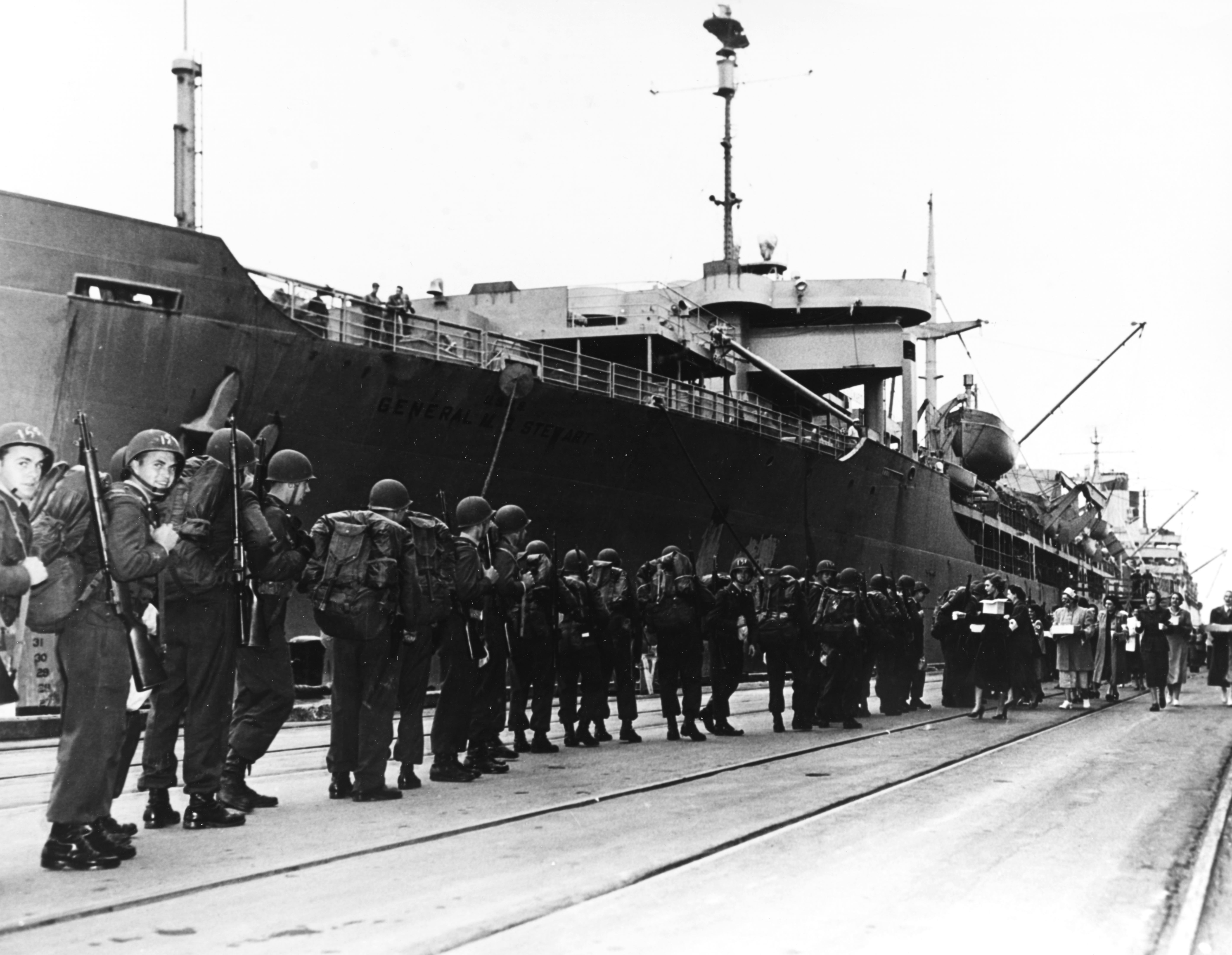 Troops of the U.S. Army's 43rd Infantry Division prepare to embark aboard the U.S. Military Sea Transportation Service transport USNS General M. B. Stewart (T-AP-140) for service with the Seventh United States Army, VII Corps in West Germany, at Hampton Roads Pier, Virginia (USA), 10 October 1951. At right, Red Cross workers are passing out doughnuts and coffee to the men.